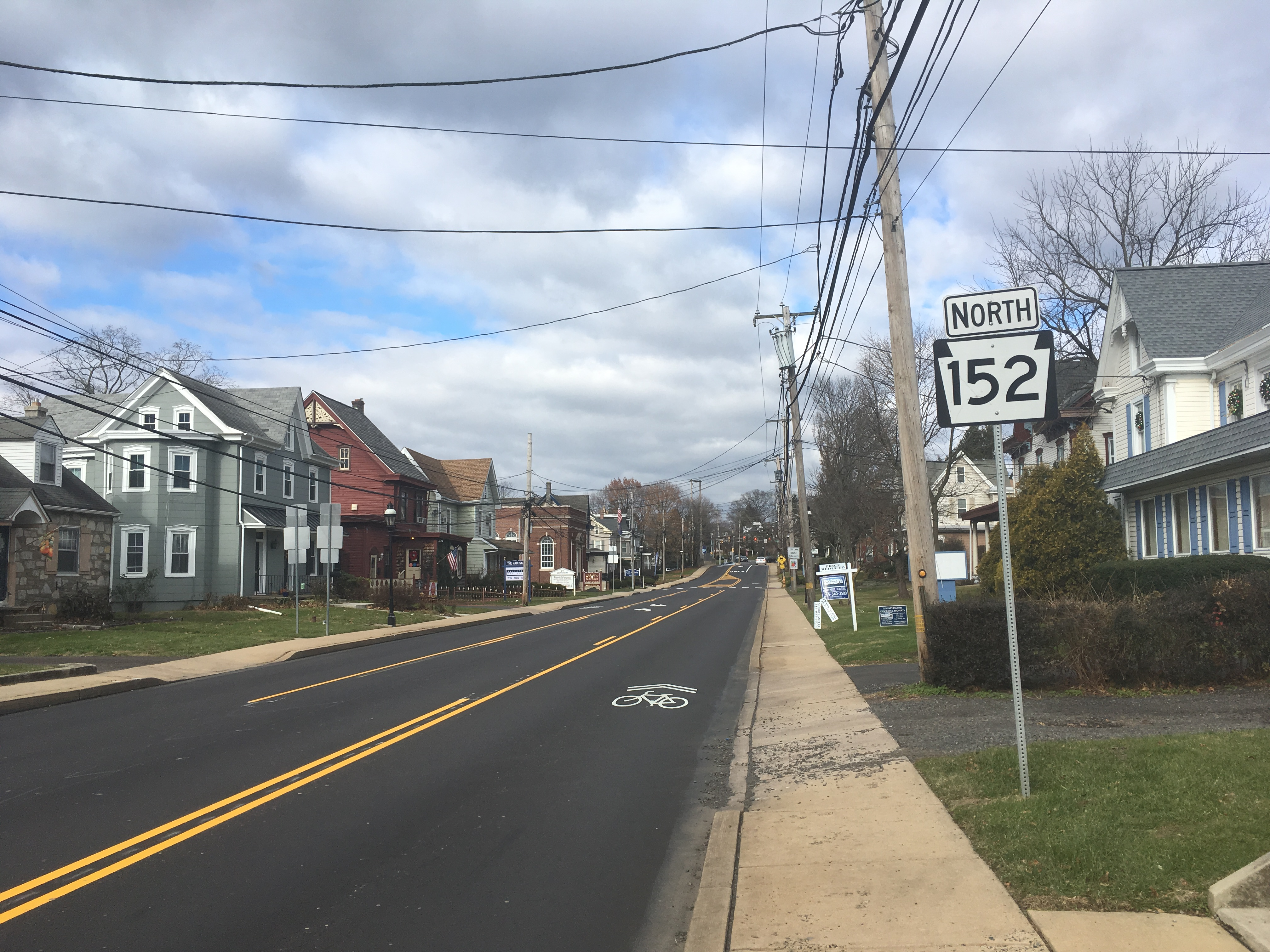 Northbound Pennsylvania Route 152 (Main Street) past the intersection with U.S. Route 202 Business (Butler Avenue) in Chalfont, Pennsylvania